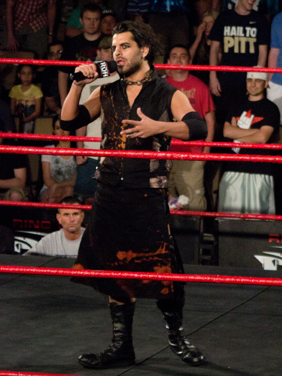 Jimmy Jacobs Promo at Showdown in the Sun Night 2 on March 31, 2012. Cropped from original.